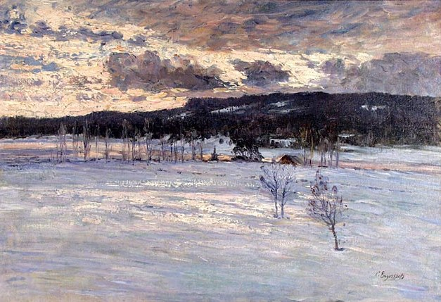 Winter landscape. Oil on canvas.